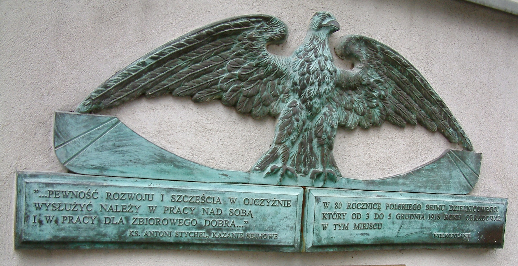 Plate comemorating Polski Sejm Dzielnicowy on Apollo Cinema in Poznań